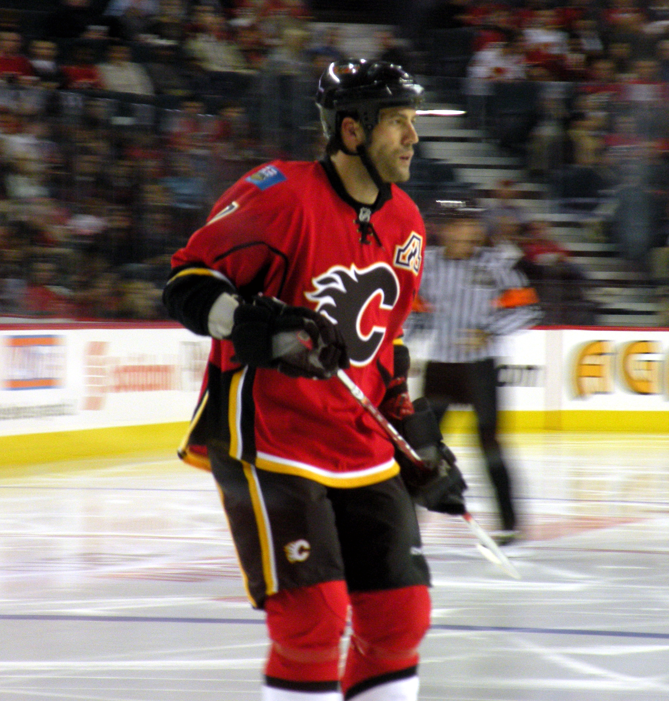 Todd Bertuzzi of the Calgary Flames during an exhibition game, September 23, 2008.